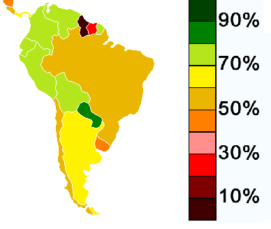 Map of Catholic population percentages in South America